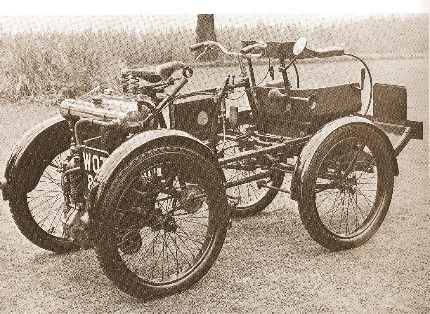 1898 Royal Enfield